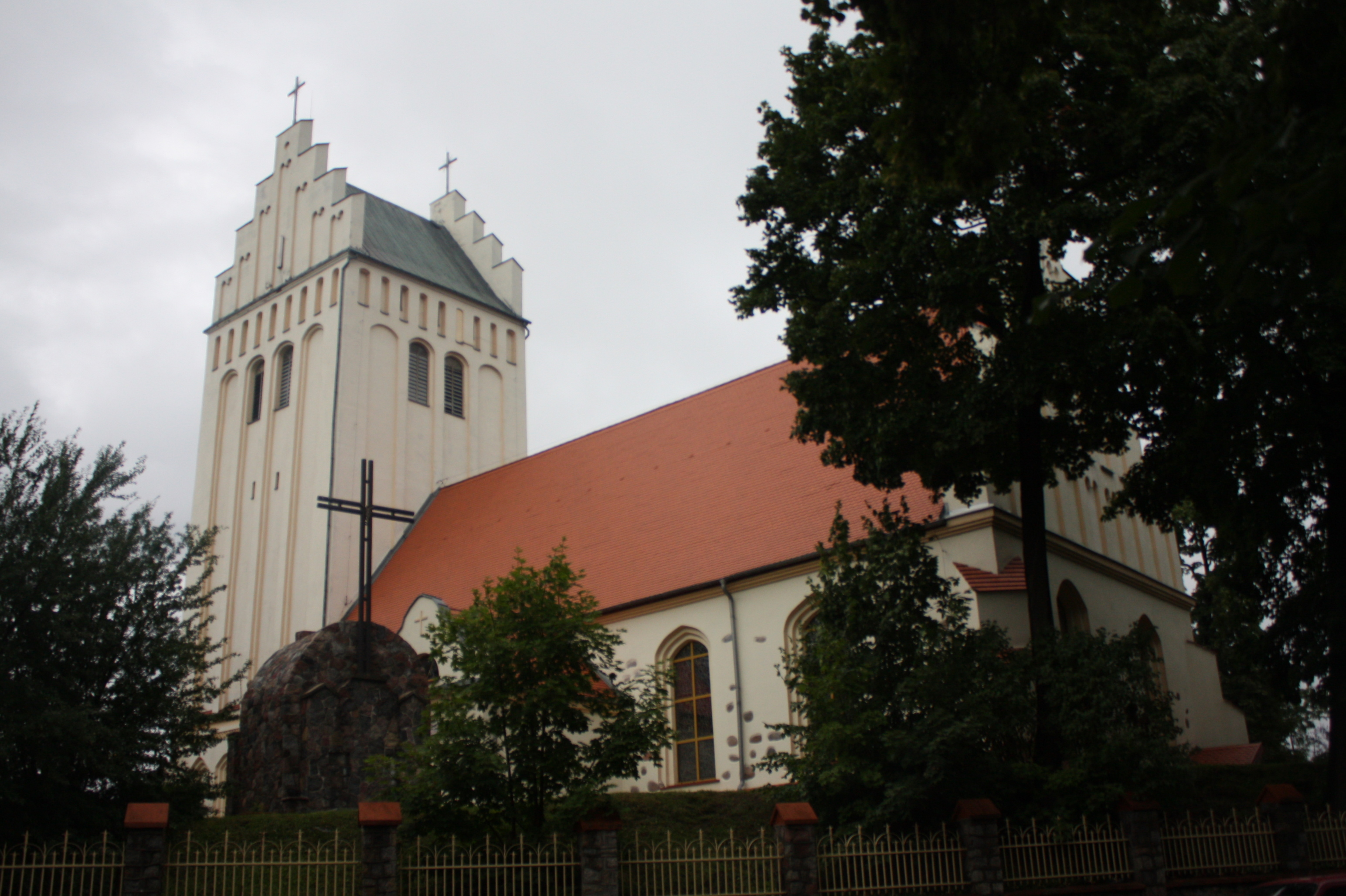 This photo of Warmian-Masurian Voivodeship was taken during Wikiexpedition 2012 set up by Wikimedia Polska Association. You can see all photographs in category Wikiekspedycja 2012. The making of this document was supported by Wikimedia Polska.